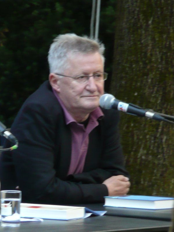 german author Jochen Schimmang at the Erlanger Poetenfest 2009